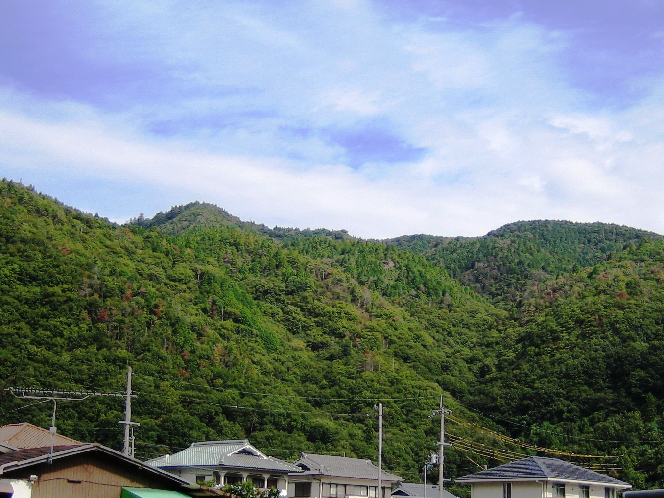 Mount Tanjo seen from the SbW, in Hyogo Prefecture, Japan.